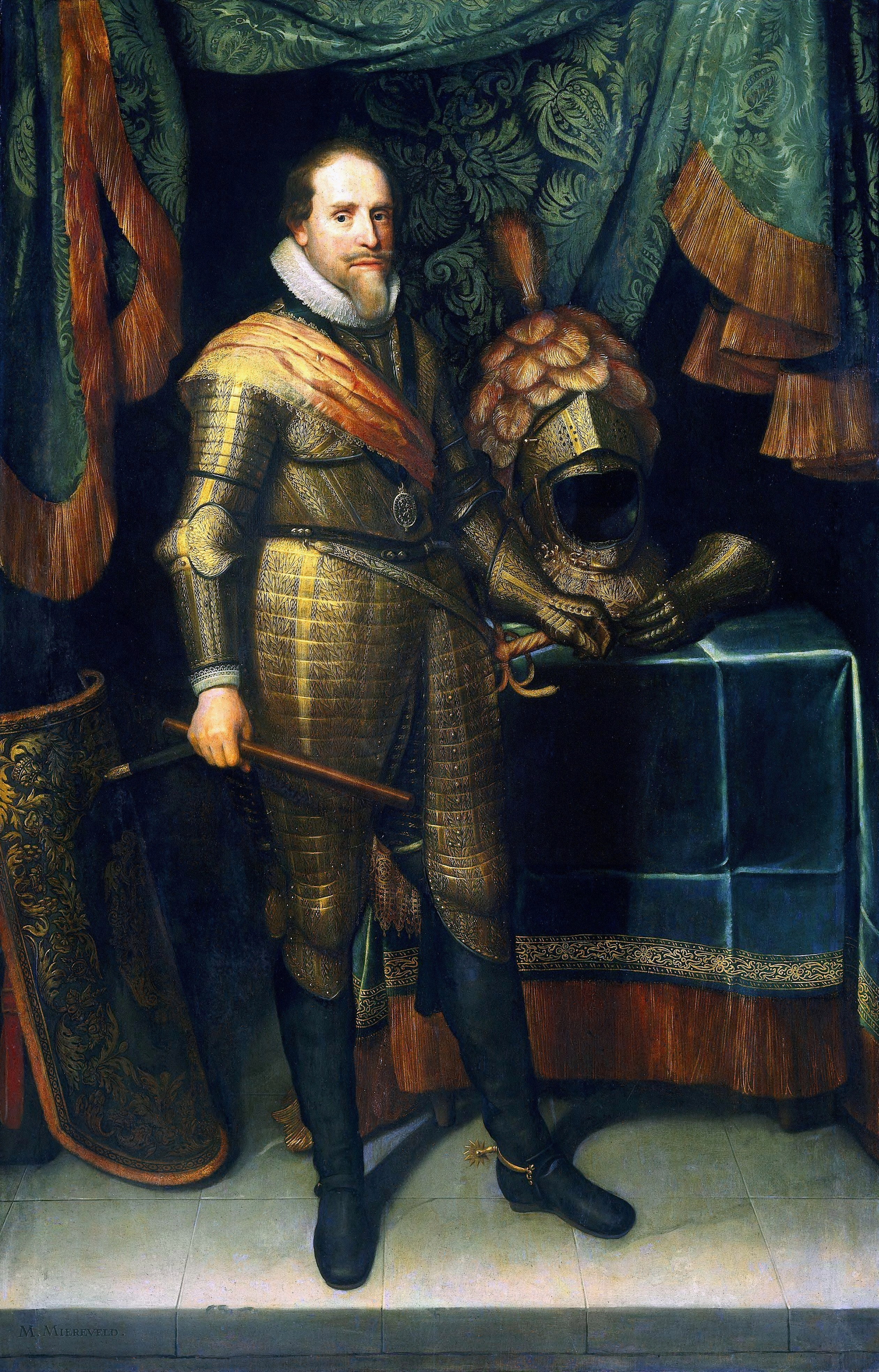 Portrait of Maurice of Nassau, Prince of Orange